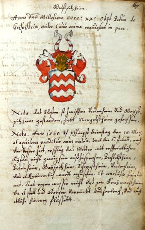 Georg Helwich, Domvikar und Historiker, Mainz, Seite 67 aus seinem Manuskript "Syntagma monumentorum et epitaphiorum"